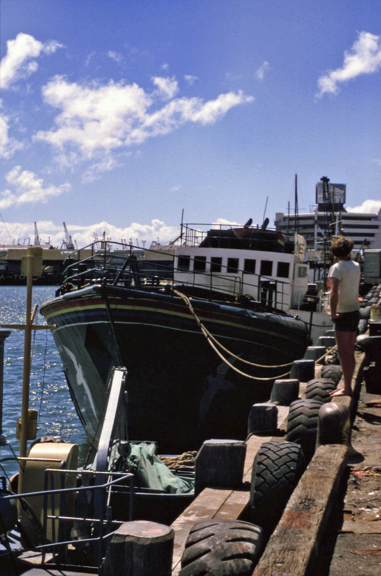 Rainbow Warrior (1955), photo taken in December 1985 in Auckland, NZ